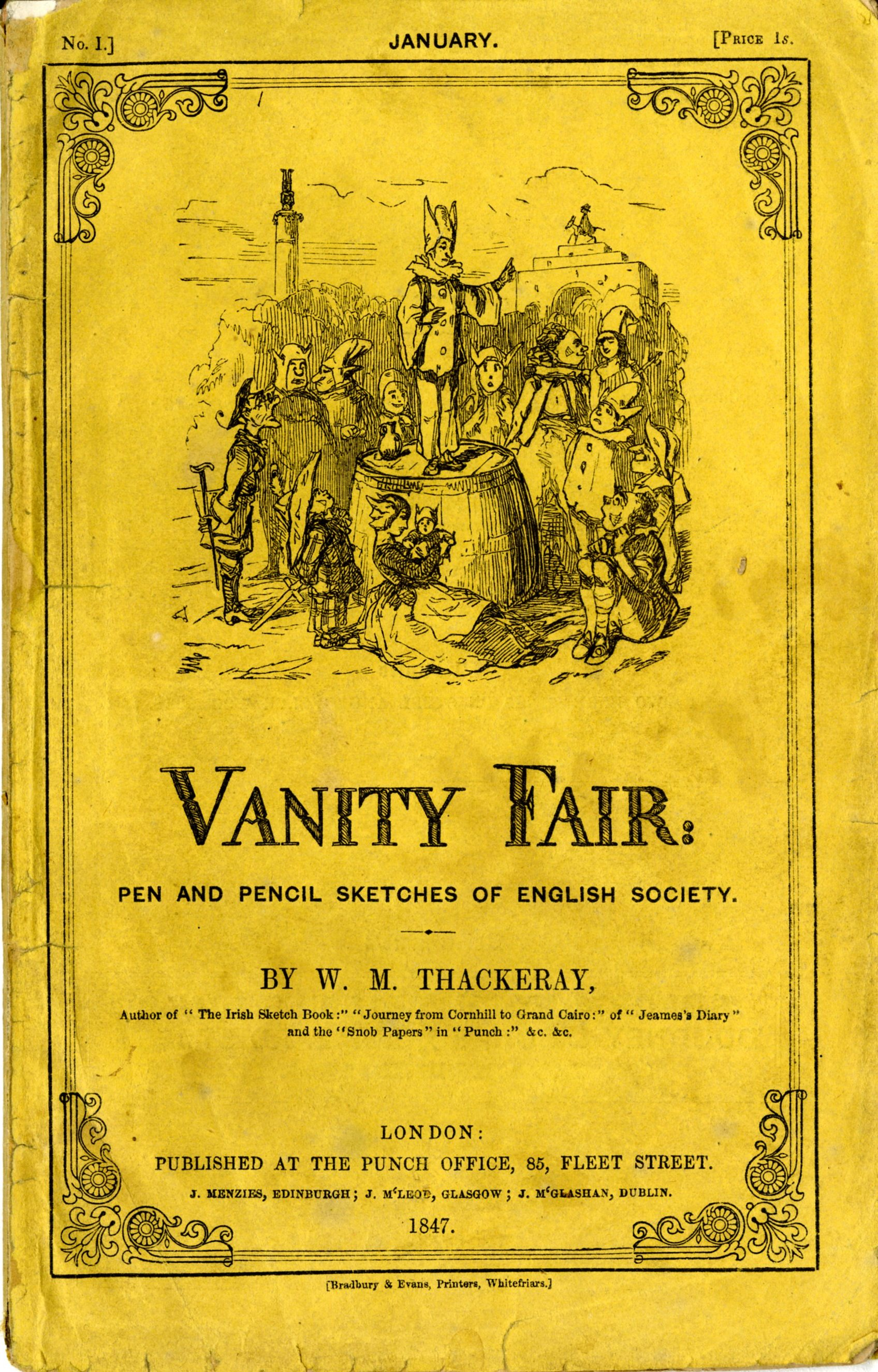 The cover of Vanity Fair: Pen and Pencil Sketches of English Society, No. I, printed by Bradbury & Evans for Punch. Priced 1s. W.M. Thackeray advertised as the author of "The Irish Sketch Book", "Journey from Cornhill to Grand Cairo", "Jeames's Diary", and the "Snob Papers" in "Punch", &c. &c.